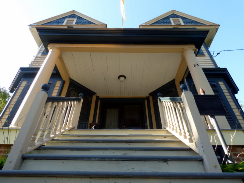 Pietro Botto House, 83 Norwood St. Haledon